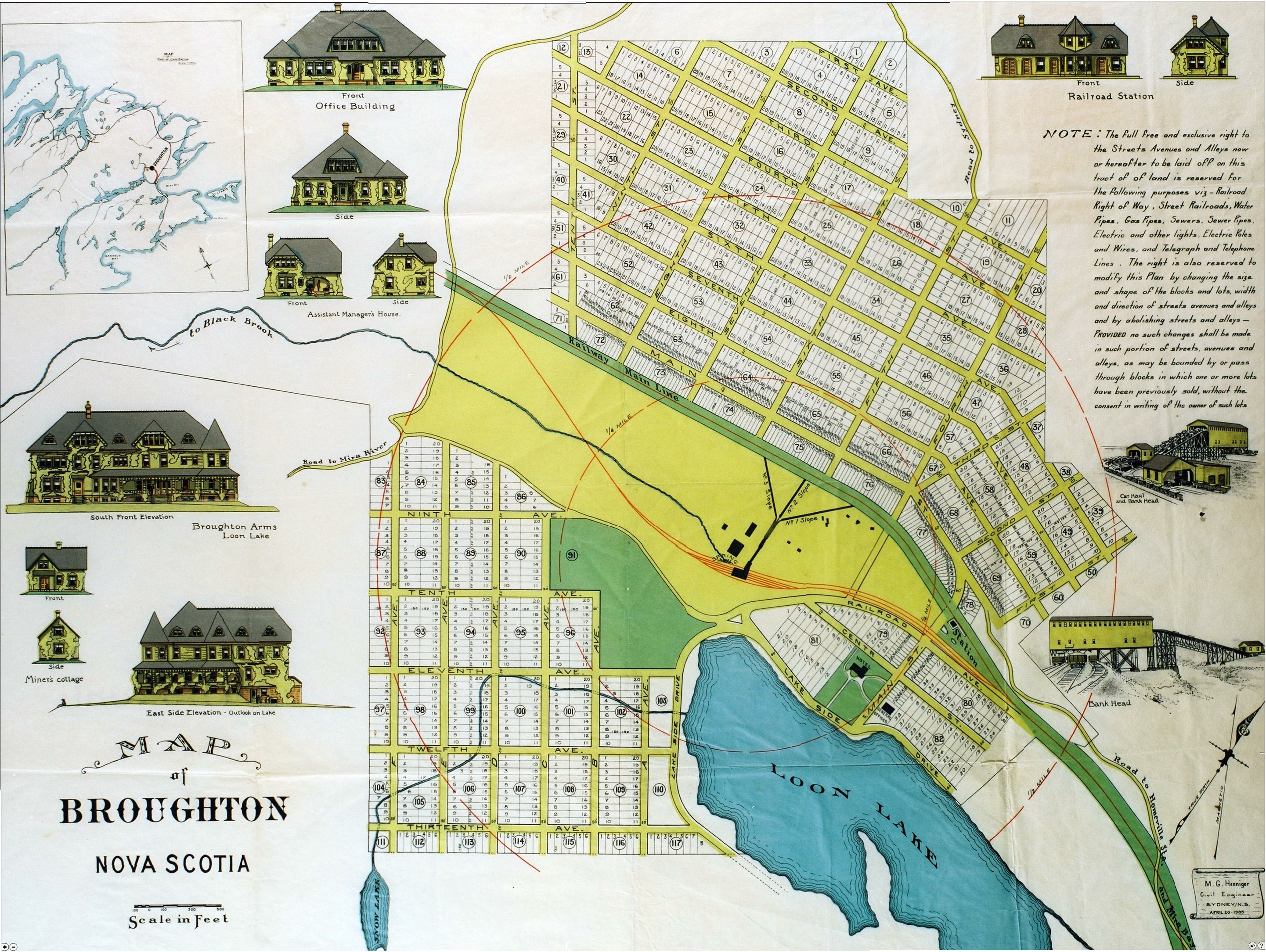 Map of town of Broughton, Nova Scotia, Canada. Map published in 1905 as per Nova Scotia archives. File